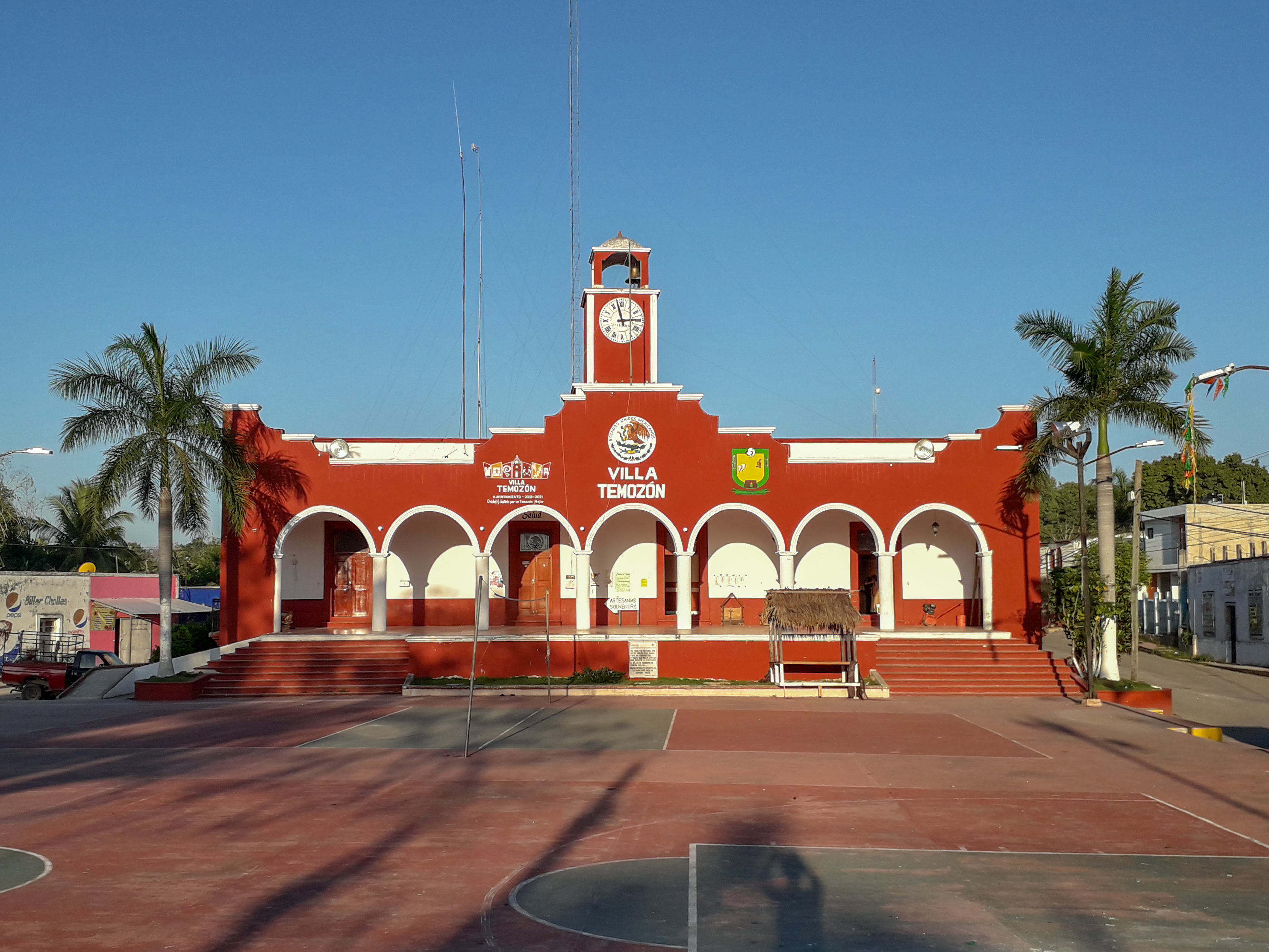 City Hall in Temozon, Yucatan.